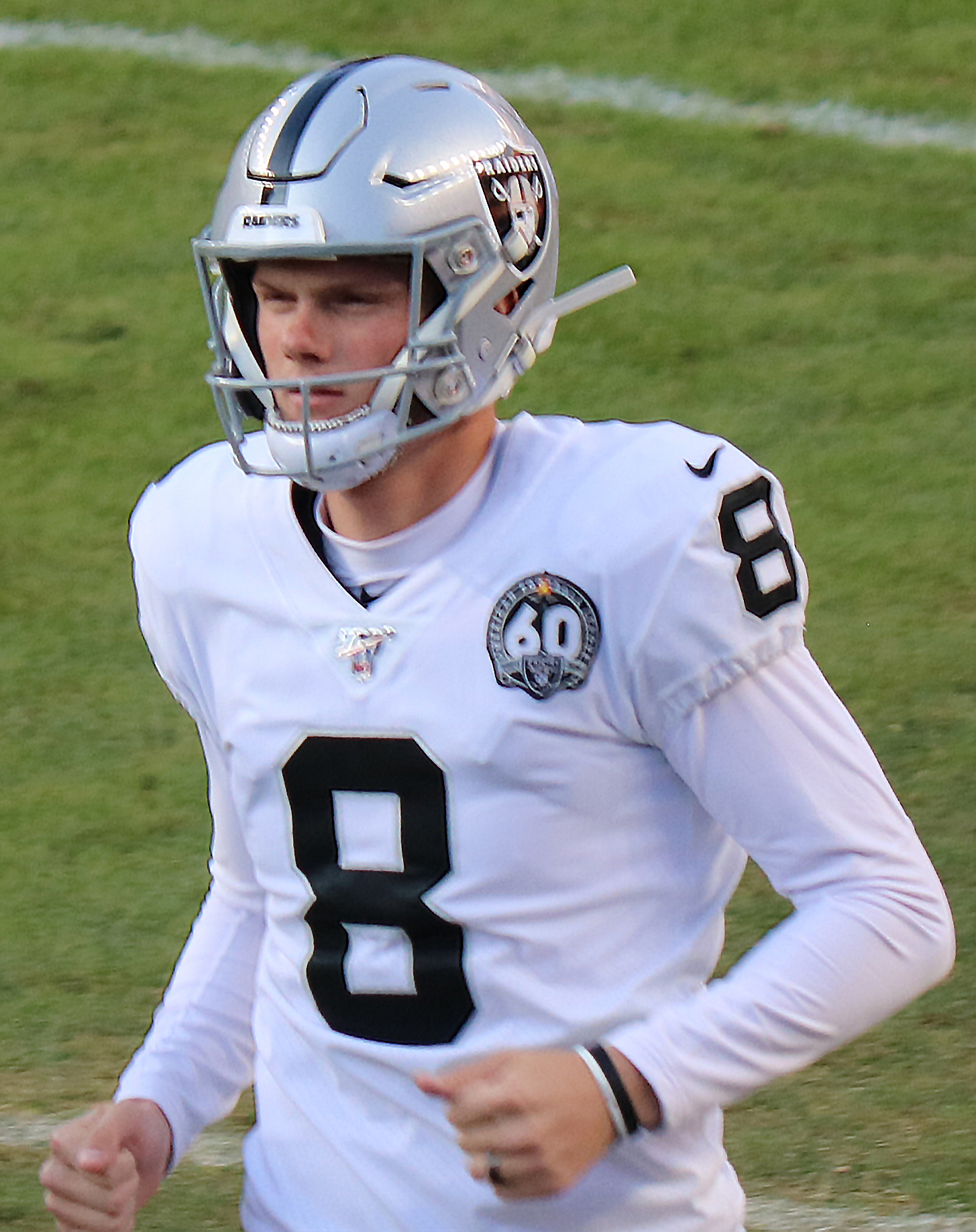 Daniel Carlson, a National Football League player.